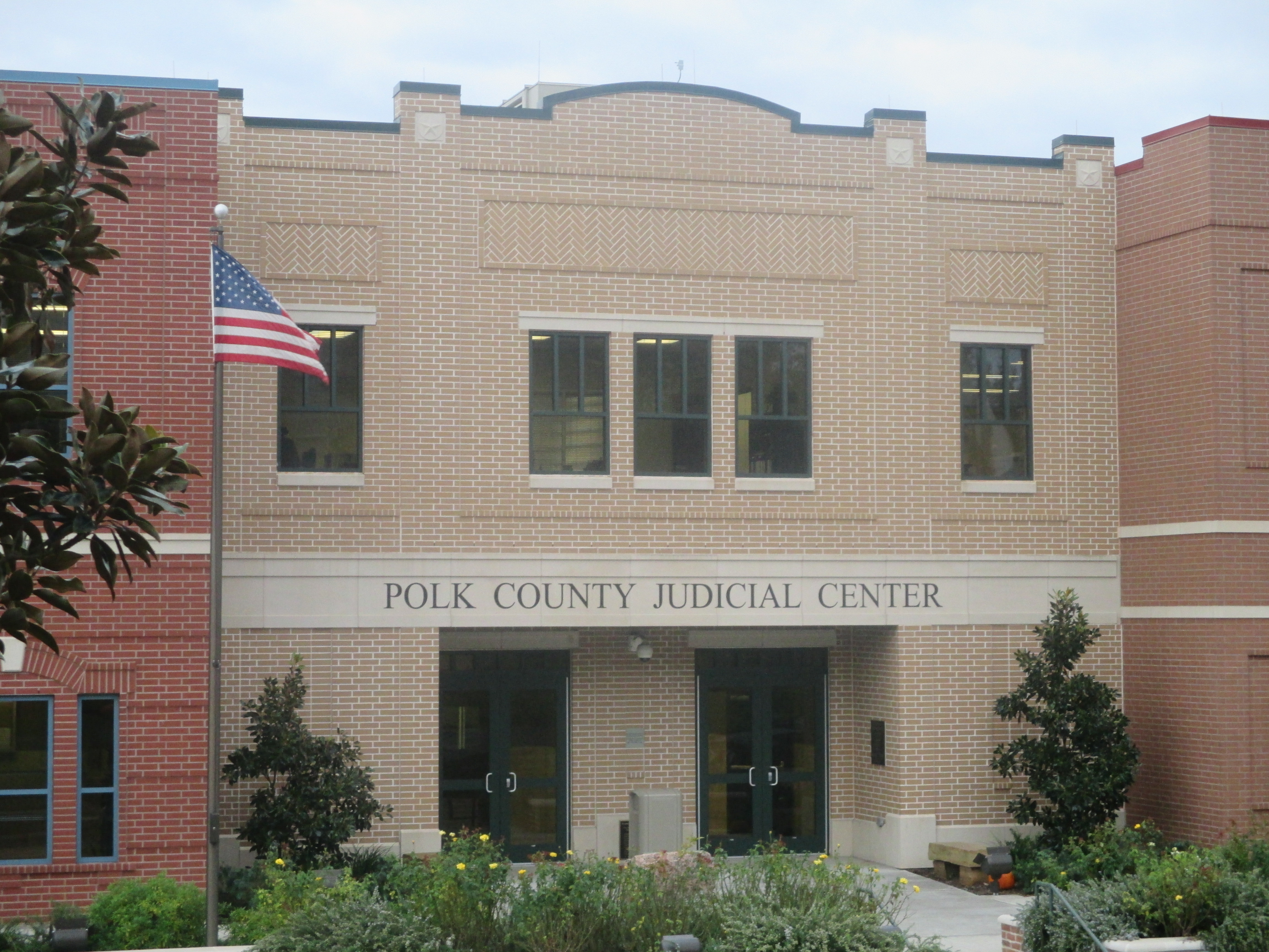 I took photo of Polk County Judicial Center with Canon camera.